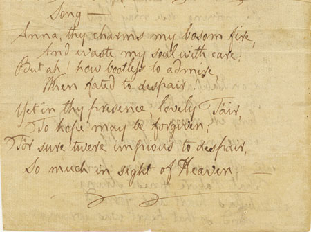 Burns included this poem in a letter to Mrs. Dunlop in February 1788 (letter no 198) as a "jeu d'esprit" and goes on to describe Alexander Cunningham as a "despairing Lover" who had taken him to meet his girlfriend Anna, which had moved Burns to write this short appreciation. (poem no 192). Here Burns has copied them out on a later occasion on page 5 of this collection of poems. A short poem of love and despair which Burns wrote after having been introduced to Anna the girlfriend of his friend Alexander Cunningham. Burns was moved the following year to write to Cunningham when he read that Anna had jilted him and married an Edinburgh surgeon. He later had the poem published in a newspaper saying that the girl had forfeited her right to the verses remaining private by her unfaithfulness. Date: February 1788 (when composed) What: Poem by Robert Burns "Anna thy charms" Subject: Who: Alexander Cunningham [c 1763-1812] (friend of Burns in Edinburgh) Robert Burns [1759-1796] (author) Where: Scotland, Edinburgh (where composed) | NT 275 735